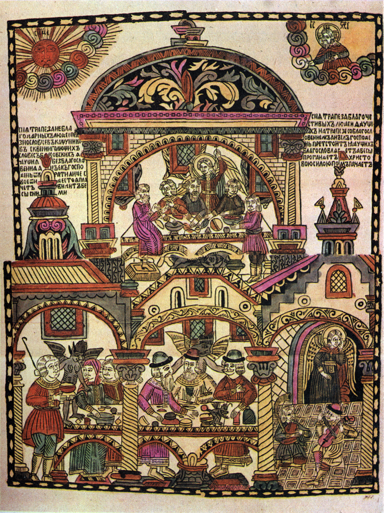 Lubok, Meal of of pious and the profane